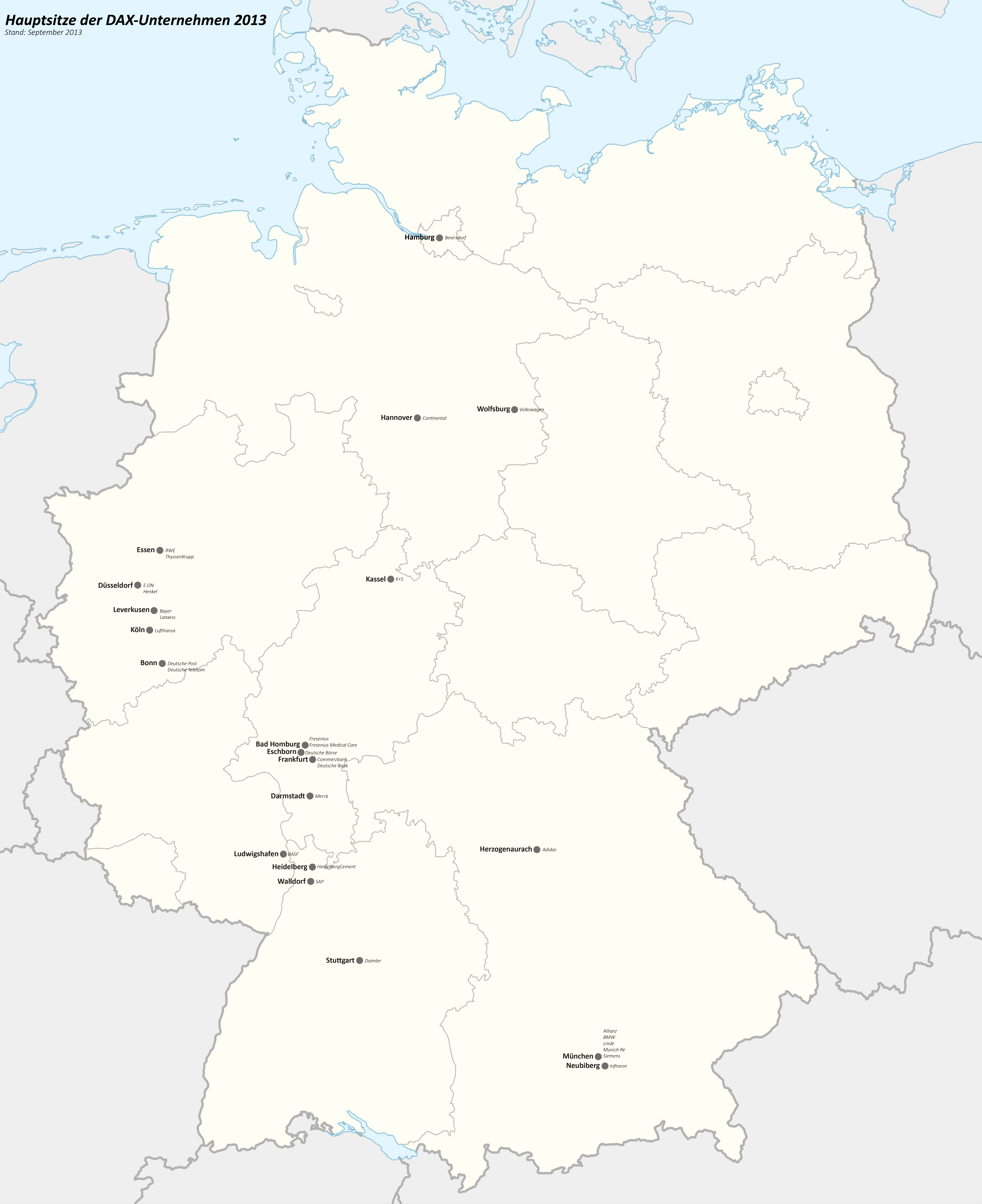 Map showing the headquarters of the 30 companies that make up the Deutscher Aktienindex (Dax).